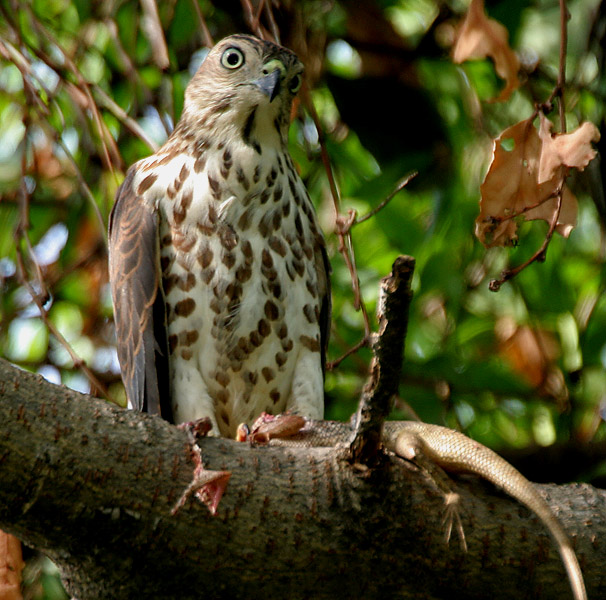 Shikra Accipiter badius in Hyderabad, India.